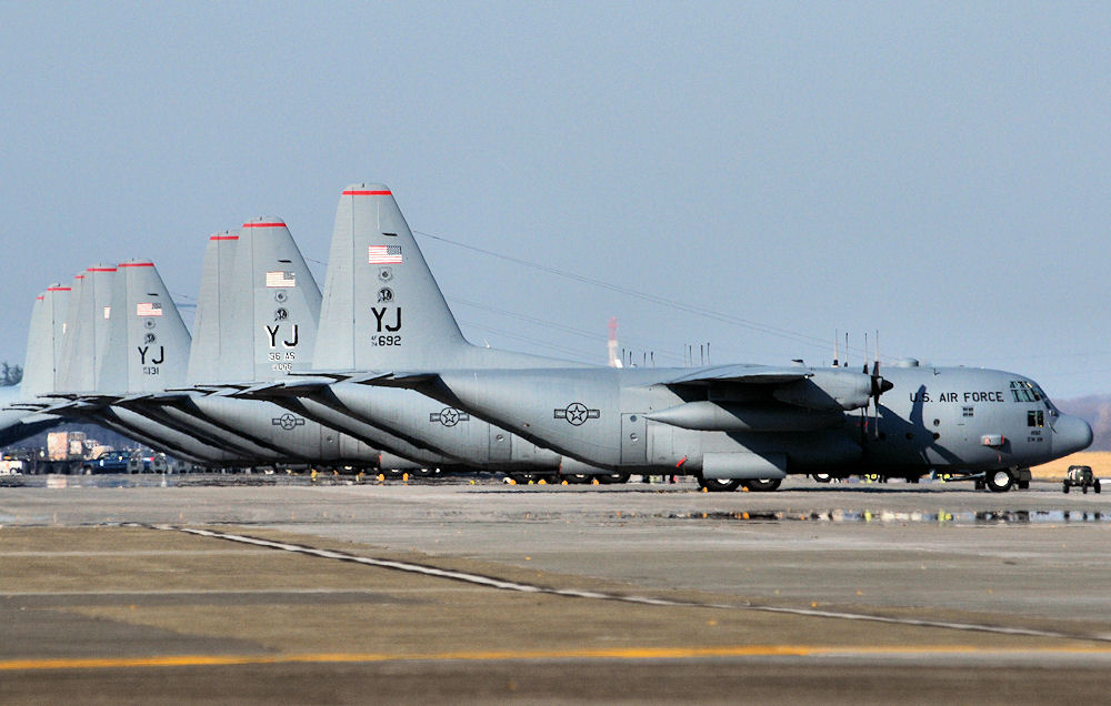 12/30/2008 - C-130 Hercules aircraft of the 36th Airlift Squadron wait on the flightline Dec. 29 for their next mission. The 36th is the only forward-based tactical airlift squadron in the Pacific. The squadron conducts theater airlift, special operations, aeromedical evacuation, search and rescue, repatriation and humanitarian relief missions. (U.S. Air Force photo by Senior Airman Brian Kimball)